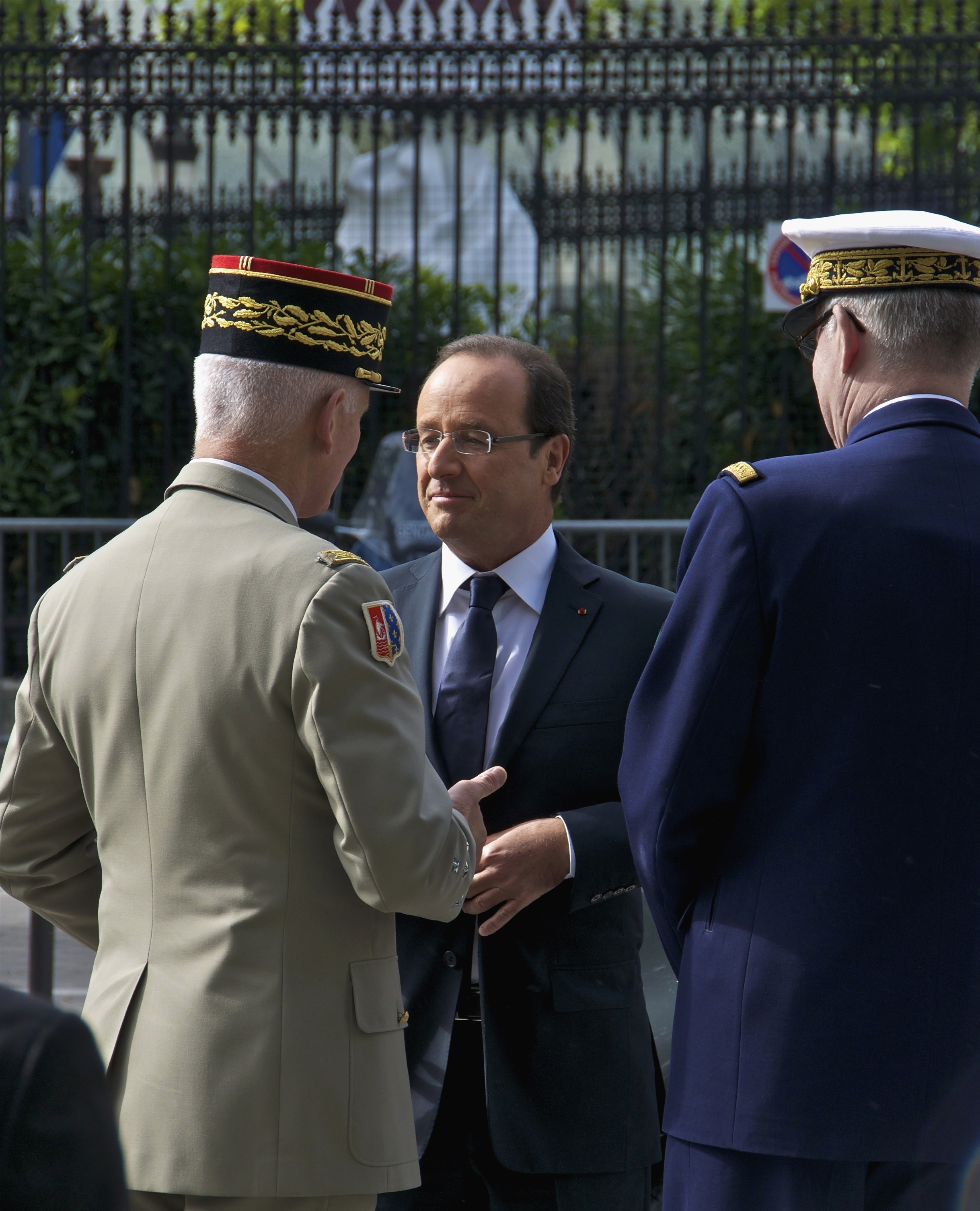 The french President François Hollande talking with Général d'Armée Bruno Dary, military Governor of Paris (left), and Admiral Edouard Guillaud, Chief of Staff of the French Armies (right), immediately before the military parade of the Bastille Day, july 14th 2012.